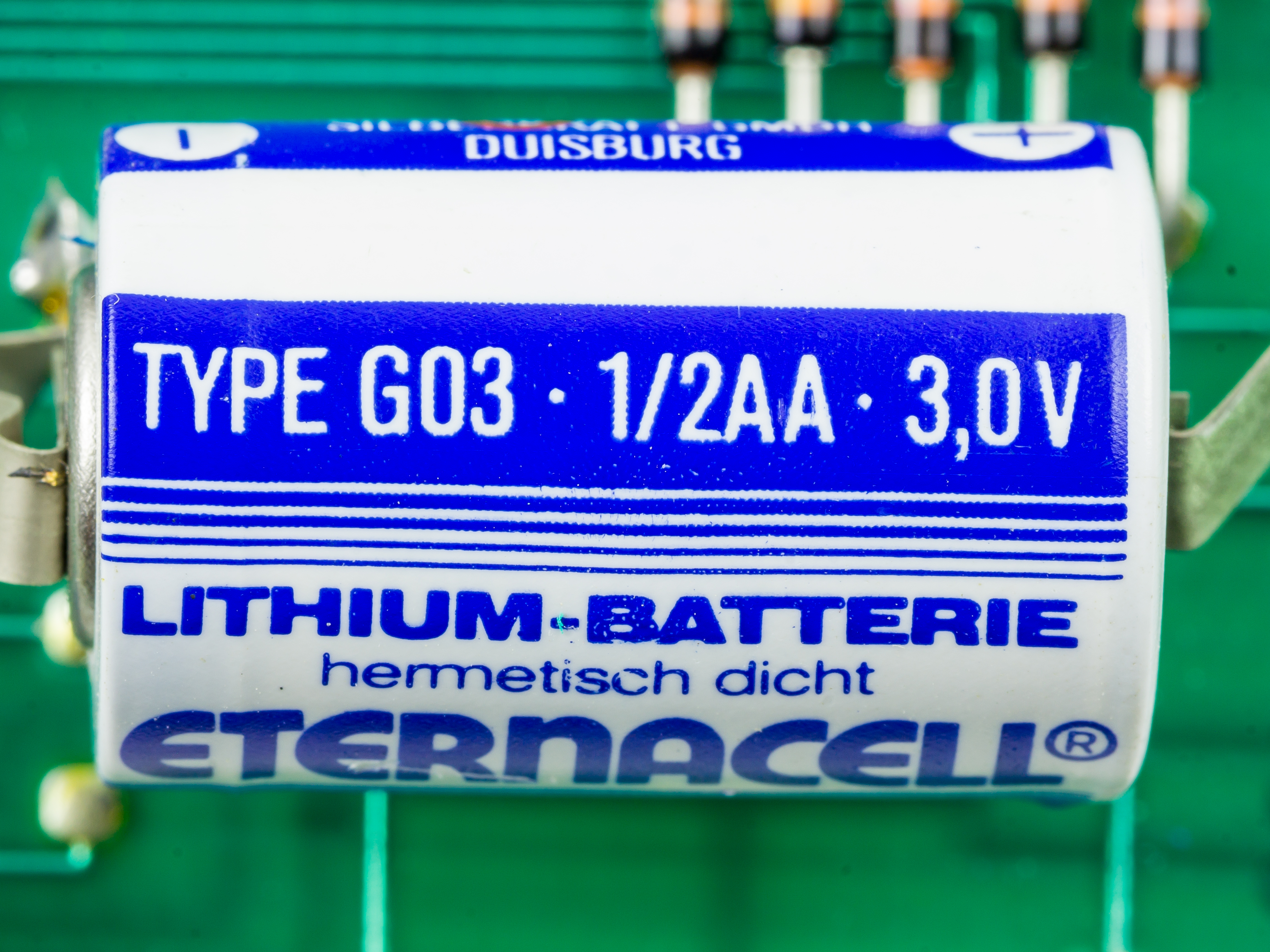 FeAp 92-1a - keyboad and display PCB - Eternacell Lithium battery G03